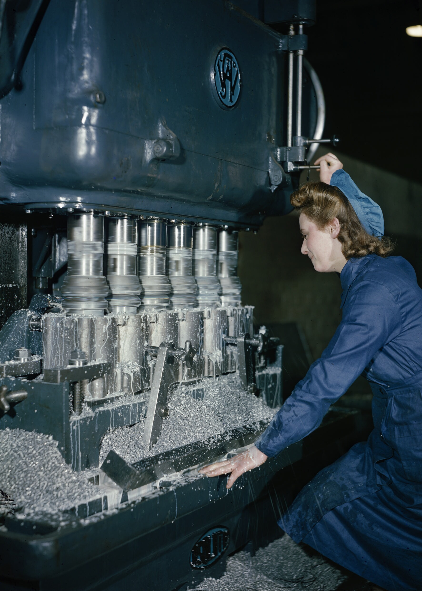 A woman war worker machining a cylinder block for a Rolls Royce engine. The War Effort: A woman war worker machining a cylinder block for a Rolls Royce engine.